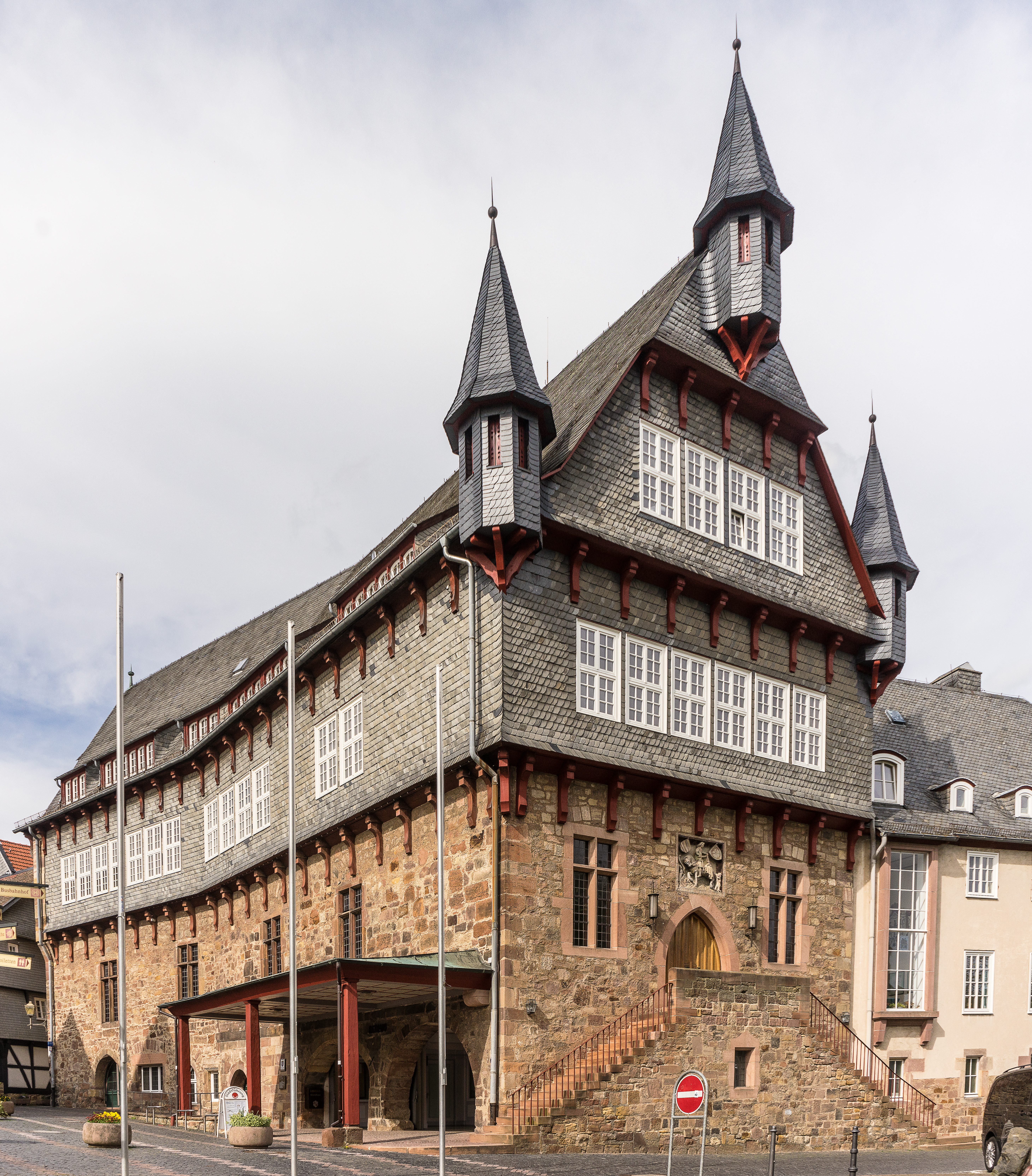 Townhall Fritzlar